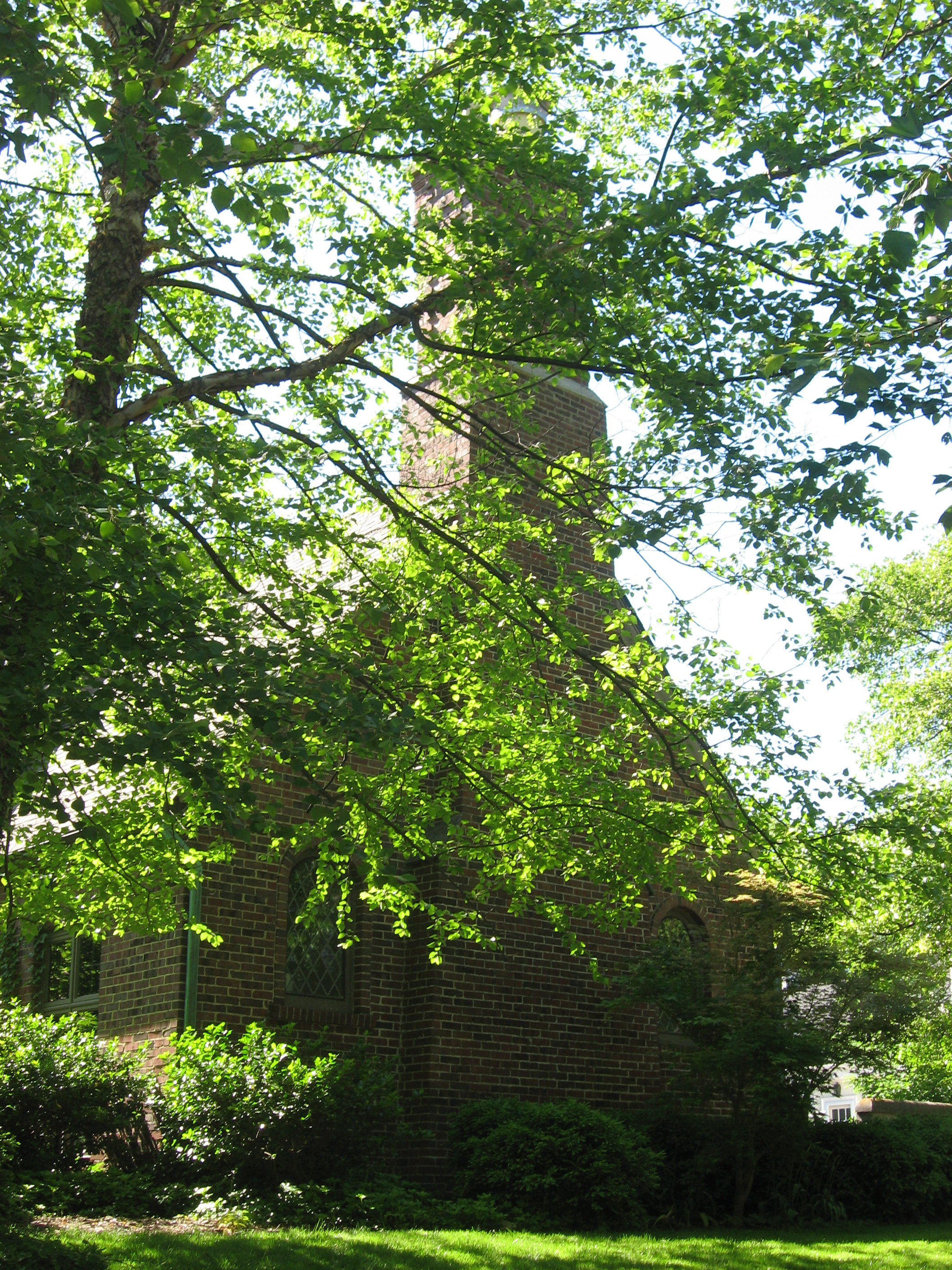 Front of the Charles S. and Mary McGill House, located at 505 N. Washington Street in Valparaiso, Indiana, United States. Built in 1926, it is listed on the National Register of Historic Places.